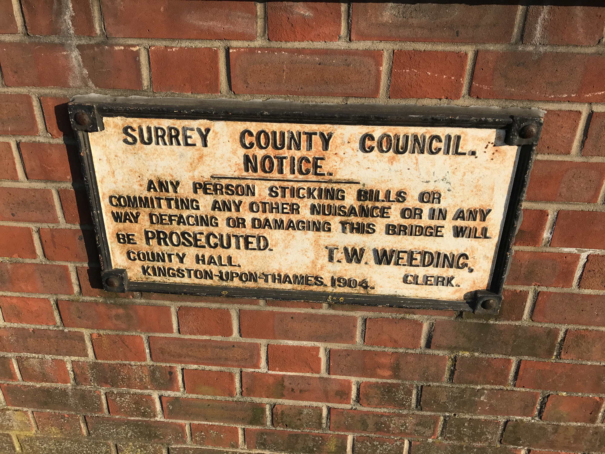 Cast iron sign on Roe Bridge, Mitcham Lane, London, at the former boundary between London and Surrey